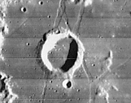 Ramsden lunar crater - image LO IV-136-h3.